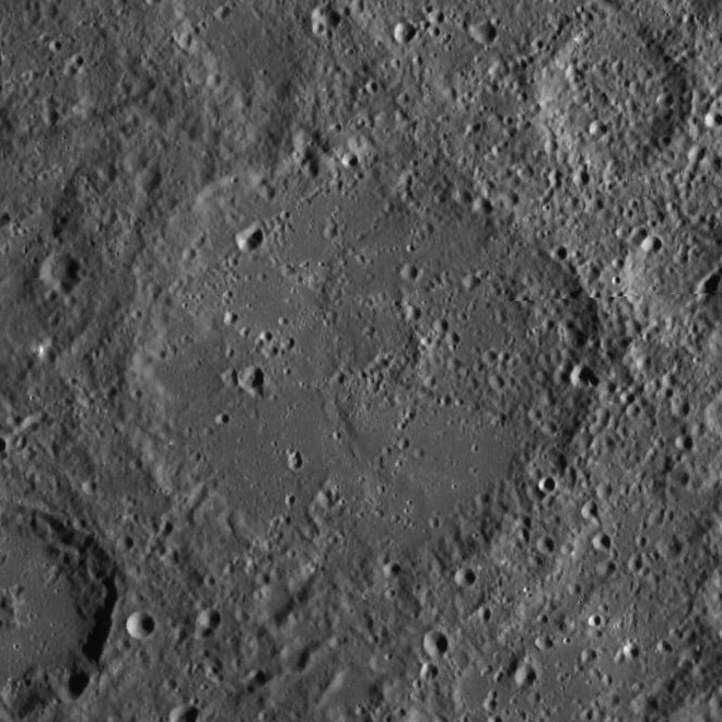 Goya crater, on Mercury. MESSENGER Wide Angle Camera mosaic. Image is approximately 217 km wide.